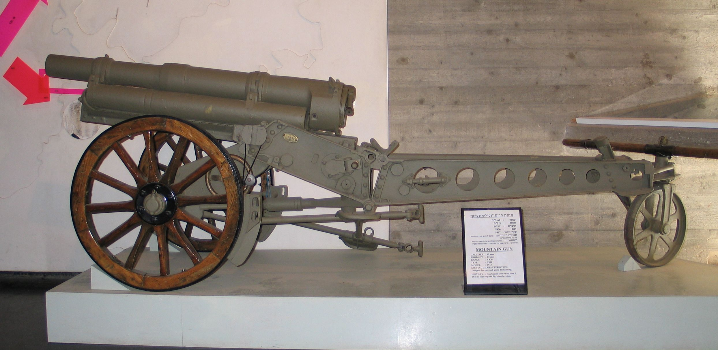 French Canon de 65 M(montagne) modele 1906 Schneider-Ducrest (known in Israel as Napoleonchik - a little Napoleon). Yad Mordechai Museum.